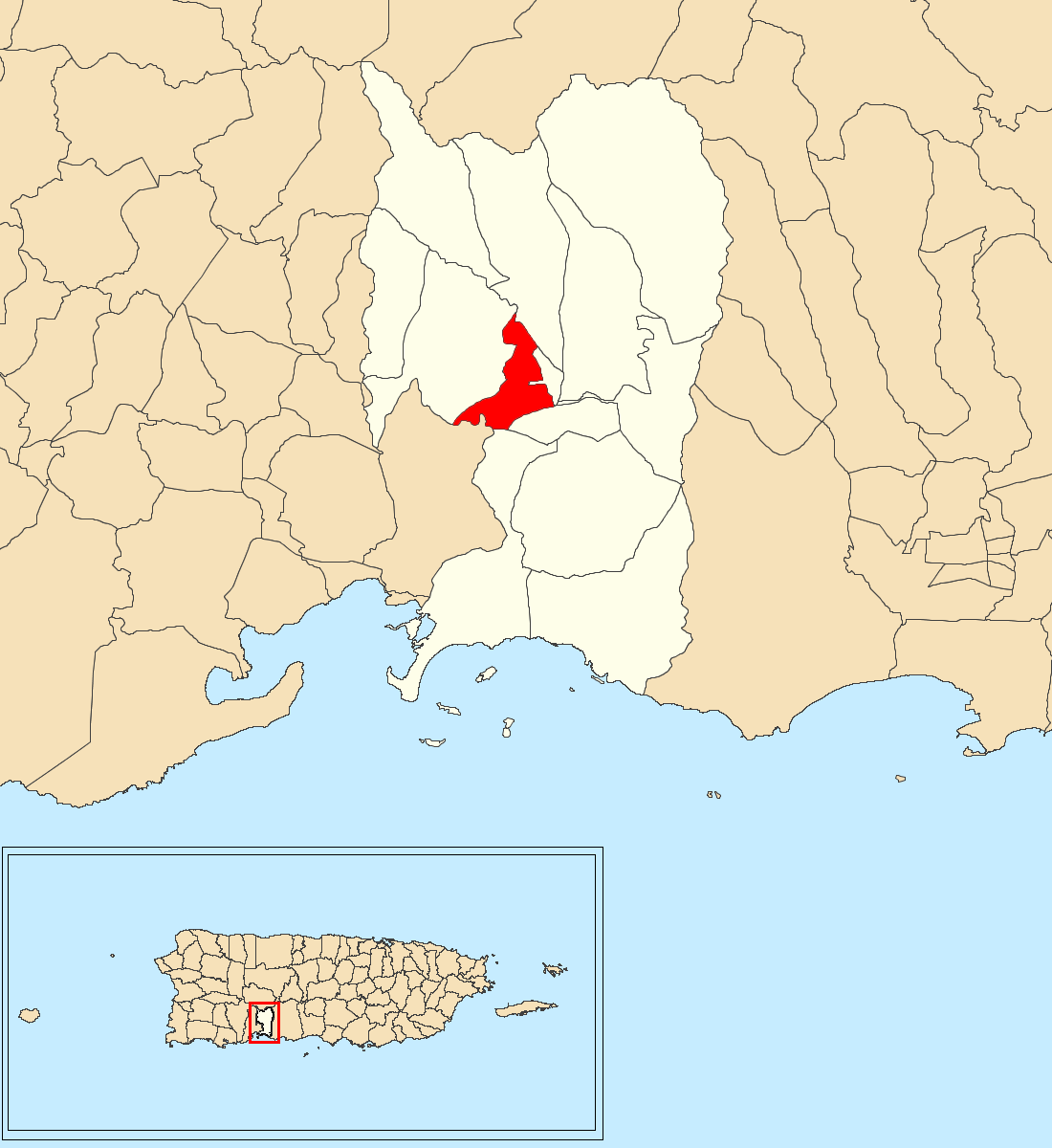 Coto, Peñuelas, Puerto Rico locator map